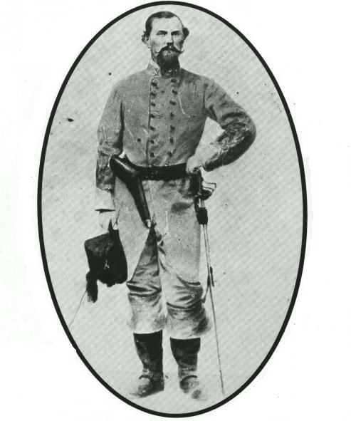 Heros von Borcke (1835-1895), german colonel in the american civil war